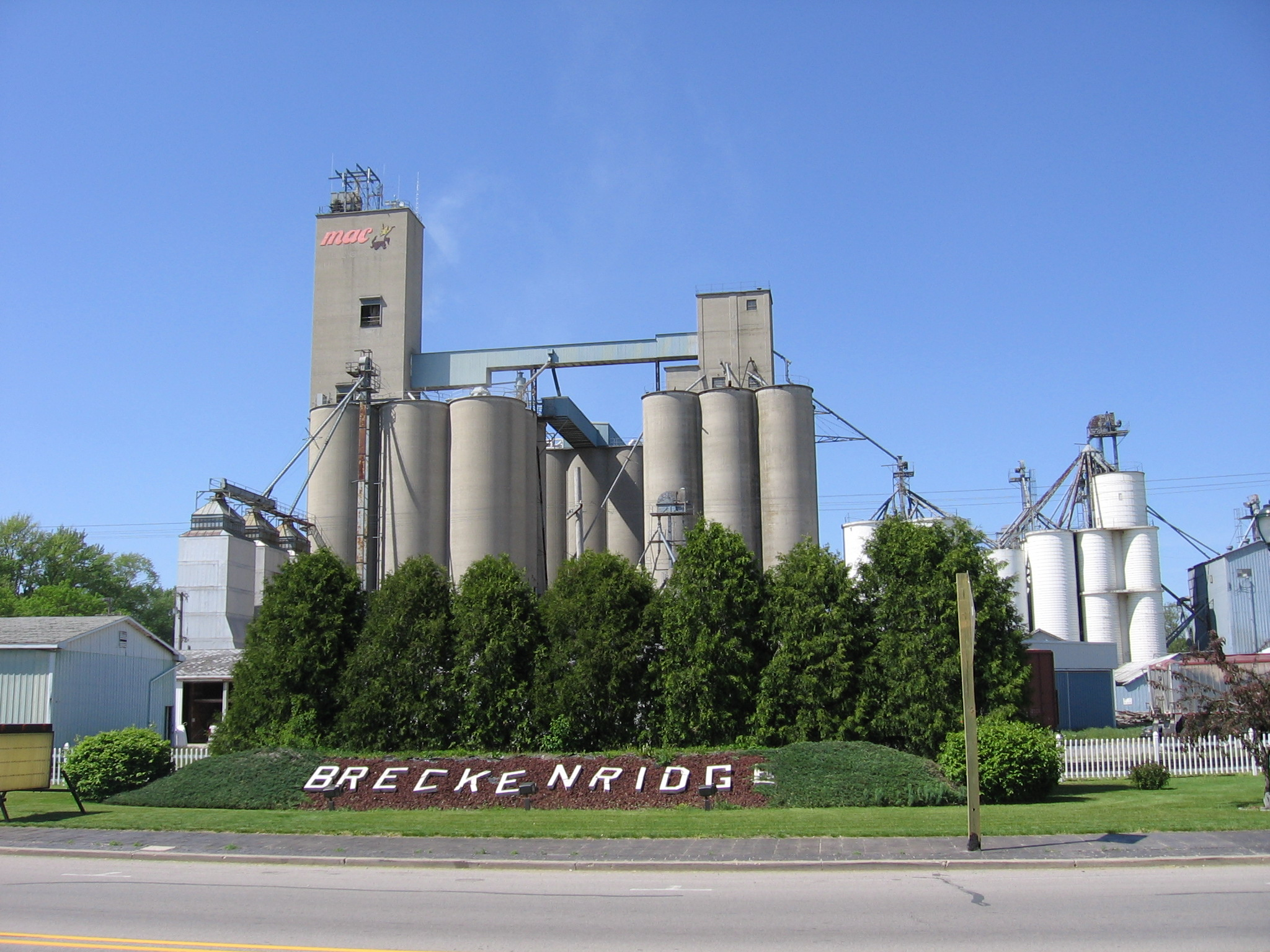 Village of Breckenridge, Michigan sign and grain silos.